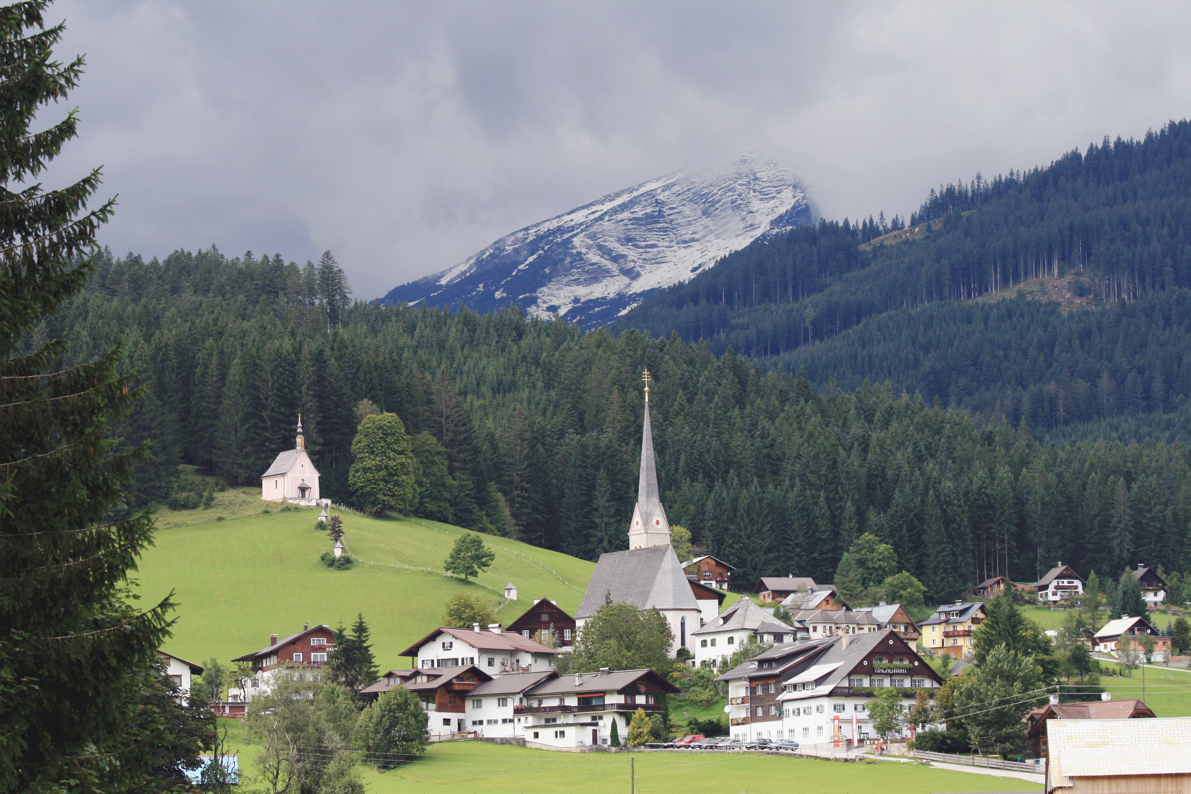 View on nothern part of village Gosau with catholic church and Calvary, Upper Austria